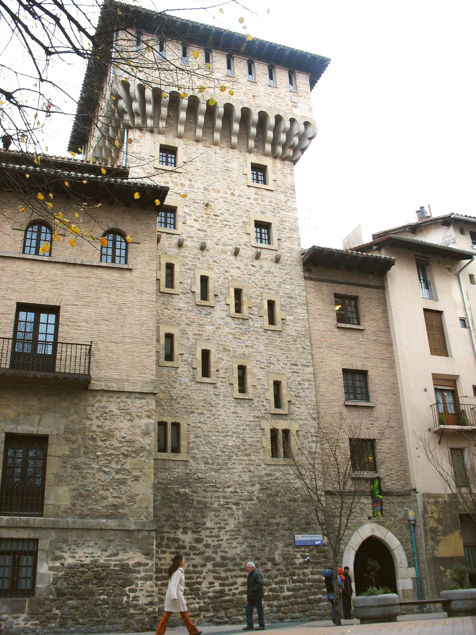 Torre de Doña Ochanda. A medieval tower in Vitoria-Gasteiz (Spain). Now it holds a Science Museum.